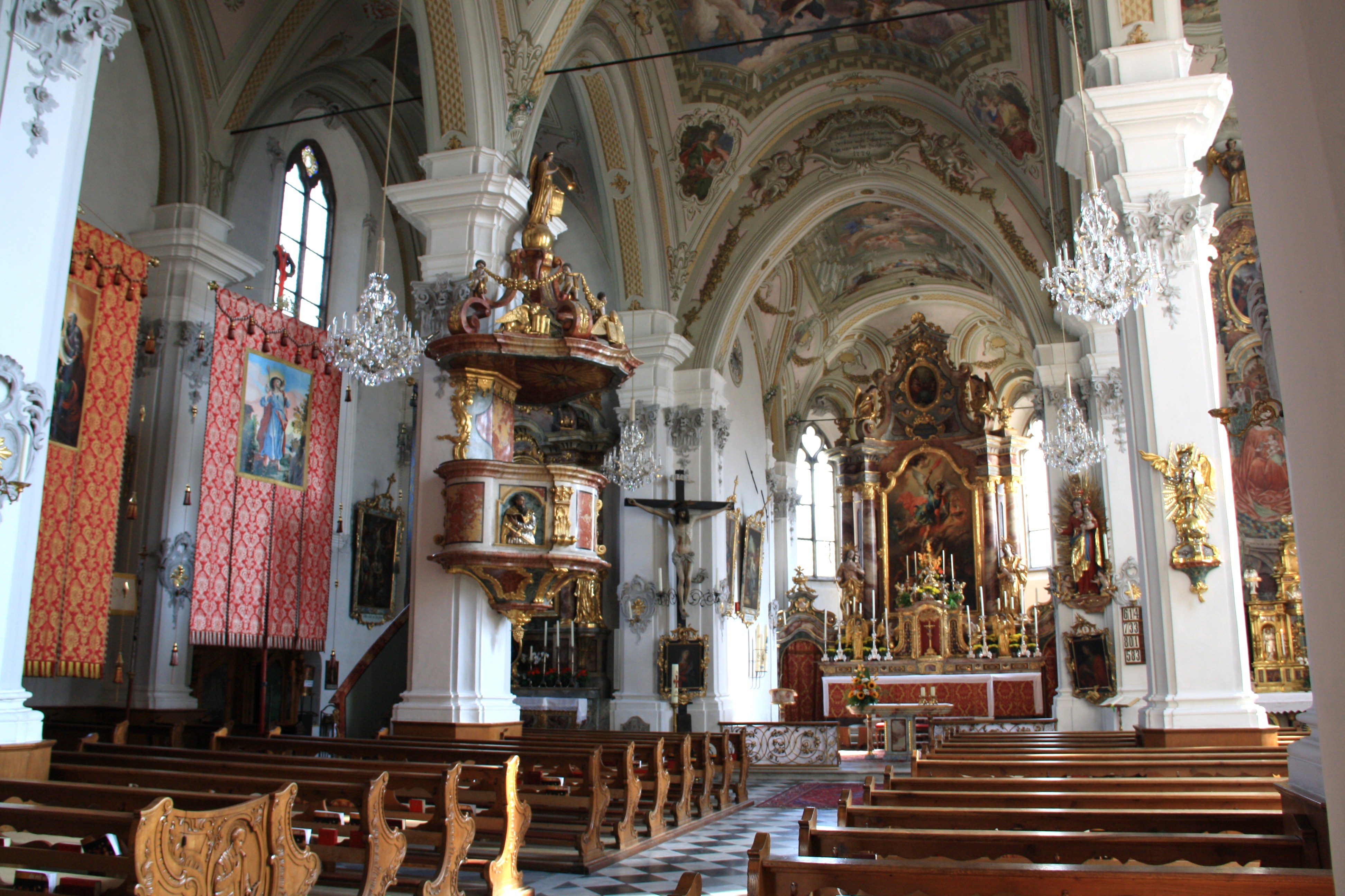 Austria, Tyrol (state), Absam. The Basilica central nave.